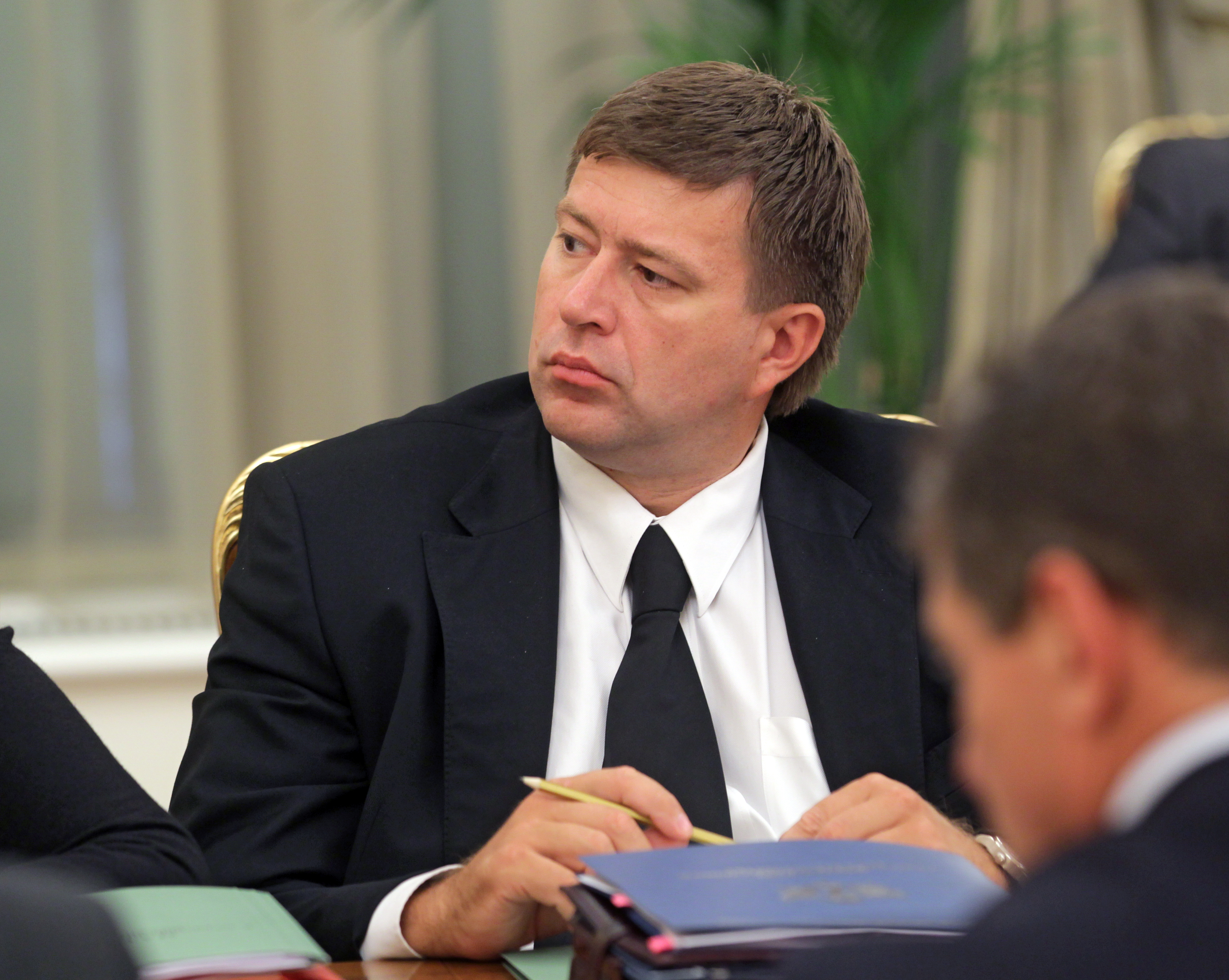 Minister of Justice Alexander Konovalov at the meeting of the Government Presidium